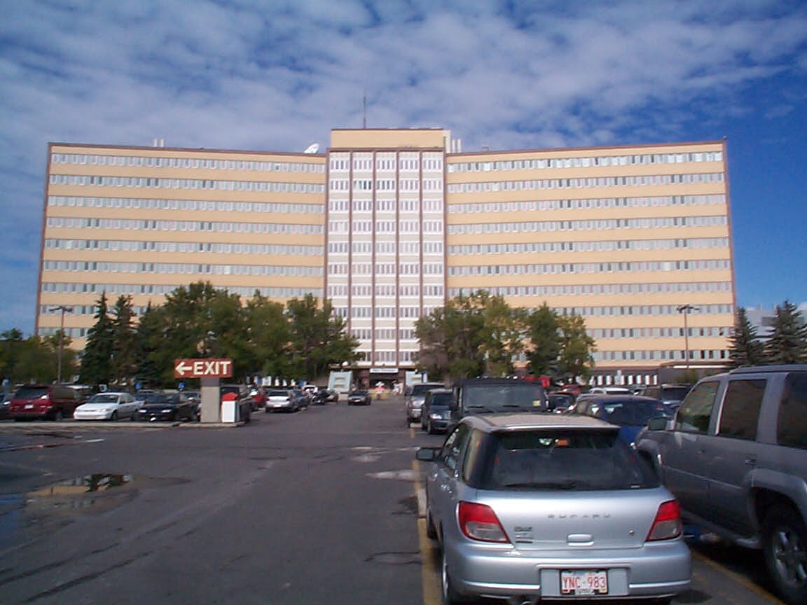 Front of Foothills Hospital of the Foothills Medical Centre in Calgary, Alberta, Canada